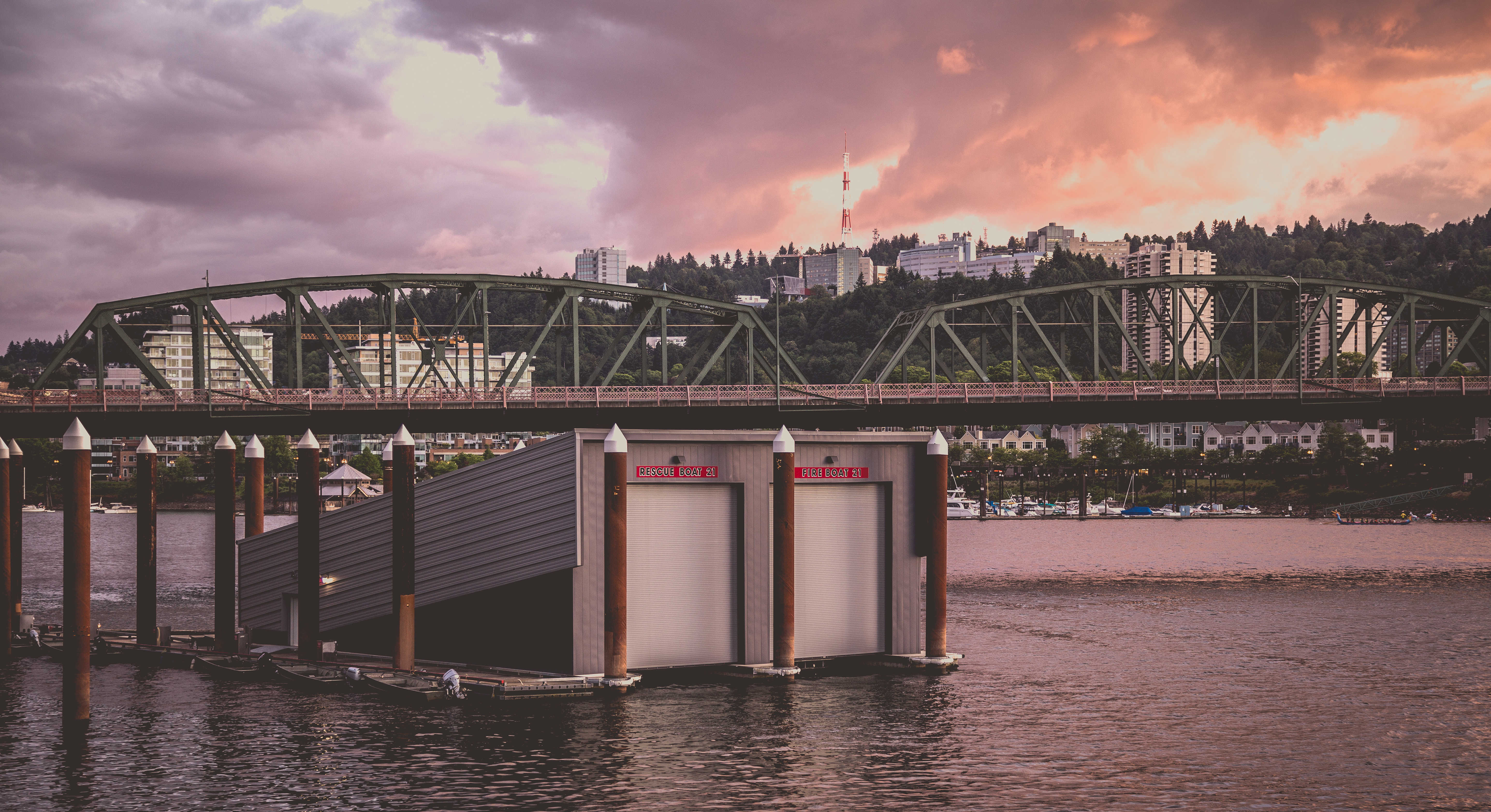 The Portland Fire Bureau's station 21 boathouse, on the Willamette River's east bank north of the Hawthorne Bridge, in Portland, Oregon